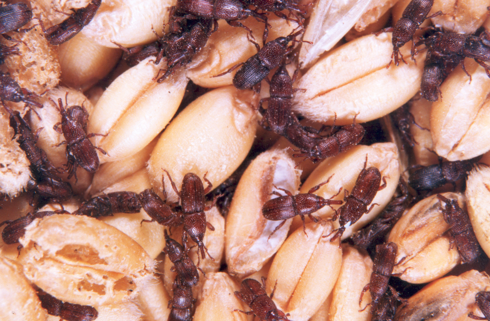 Sitophilus granarius – common name: Granary weevil. This insect thrives in stored grain and is regarded as a stored grain pest.